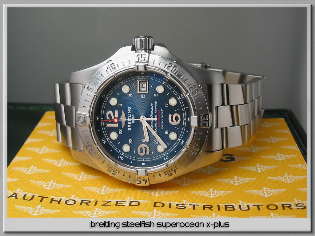 Breitling Steelfish Superocean X-Plus, model year 2003.